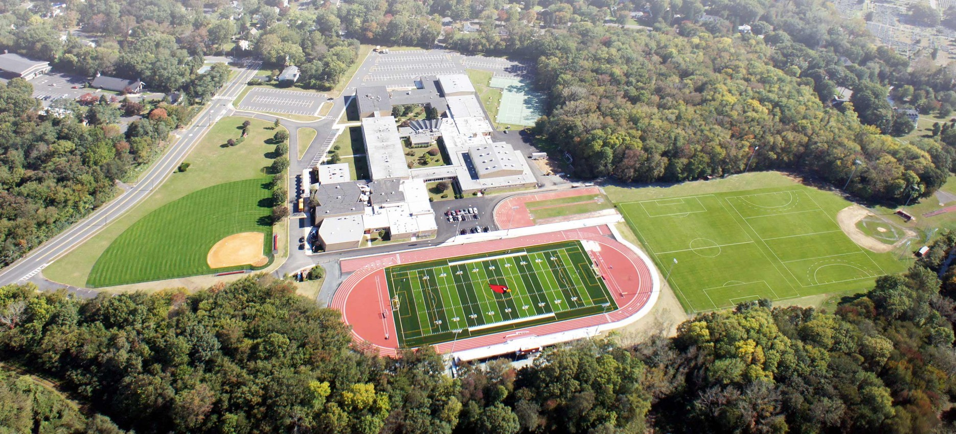 WESTWARD HIGH SCHOOL